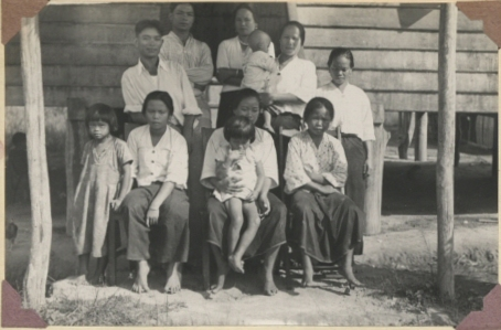 Description: A Kwijau family party, Keningau. Location: Keningau, Borneo Our Catalogue Reference: Part of CO 1069/538. This image is part of the Colonial Office photographic collection held at The National Archives. Feel free to share it within the spirit of the Commons. Please use the comments section below the pictures to share any information you have about the people, places or events shown. We have attempted to provide place information for the images automatically but our software may not have found the correct location. For high quality reproductions of any item from our collection please contact our image library